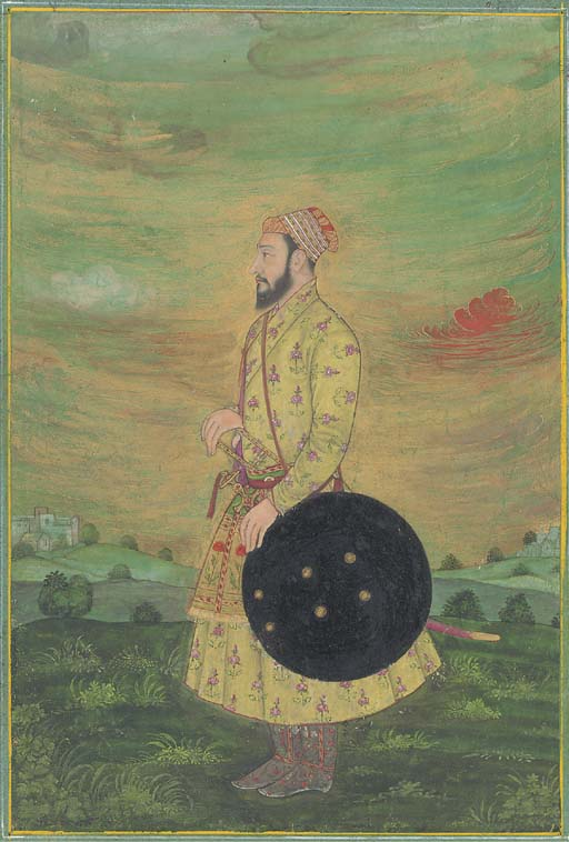 Courtier in a Landscape.The courtier dressed in floral robes facing left and carrying weapons and a black shield.